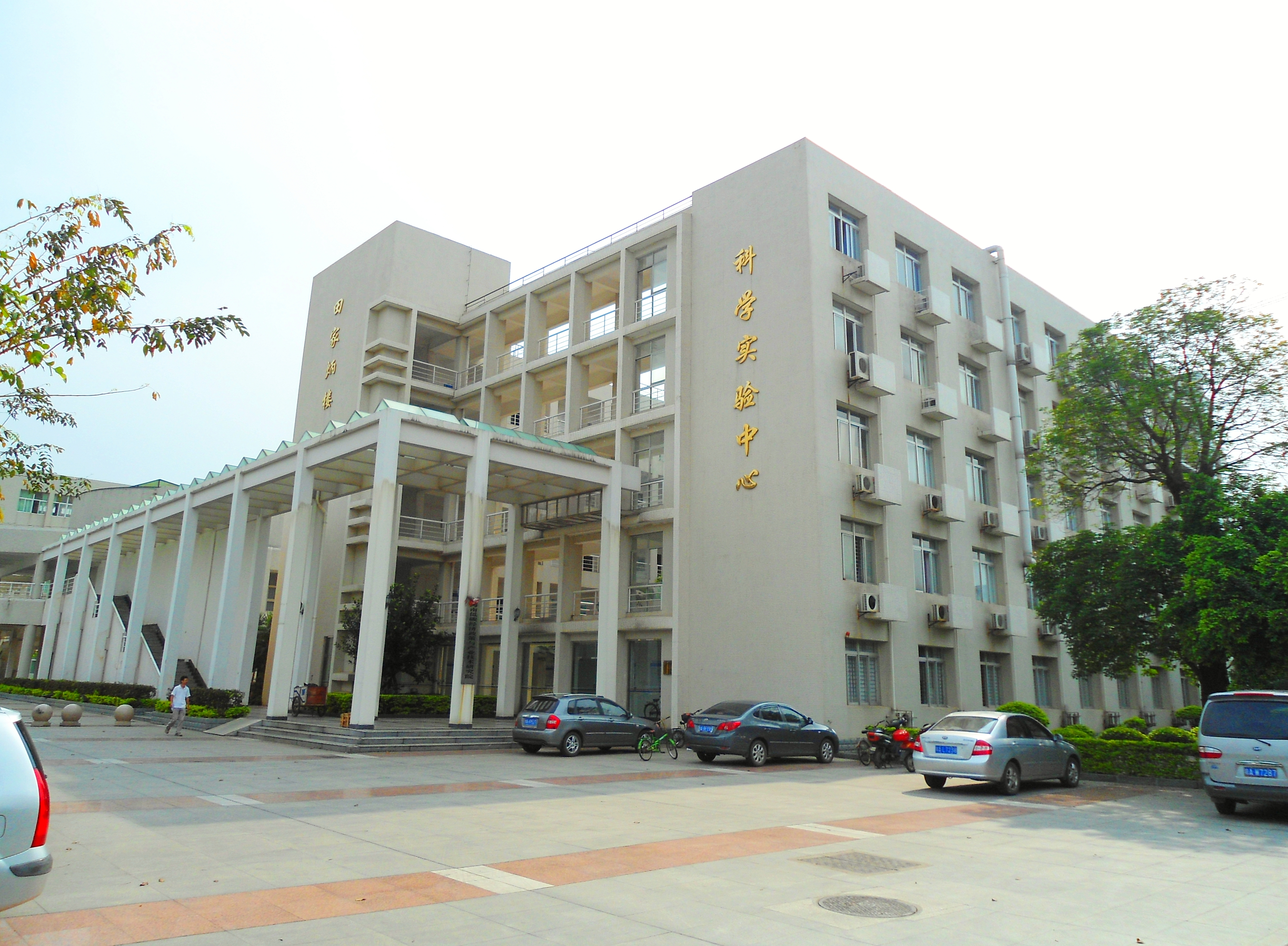 Hainan University, Haikou Campus, Haidian Island, Haikou, Hainan Province, China.